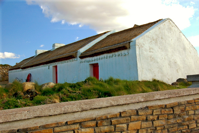 Brinlack - Restored 4-room thatched-roof cottage This cottage was restored in 2004. I was there at the time and was fortunate to see some of the interior.